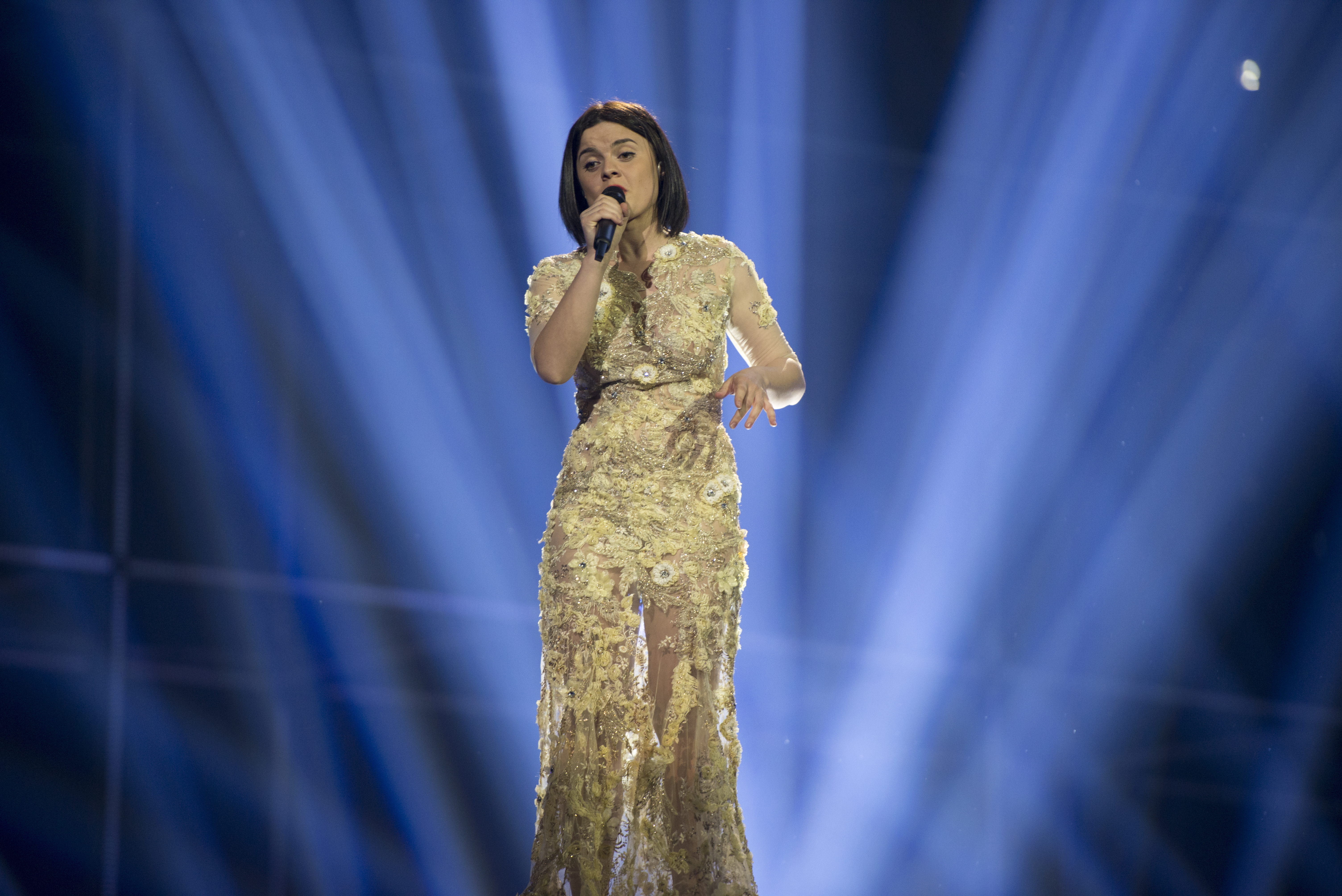 Herciana Matmuja representing Albania with the song "One Night's Anger" during the first dress rehearsal of the first semi final of the Eurovision Song Contest 2014 Copenhagen. (Help translate this text)